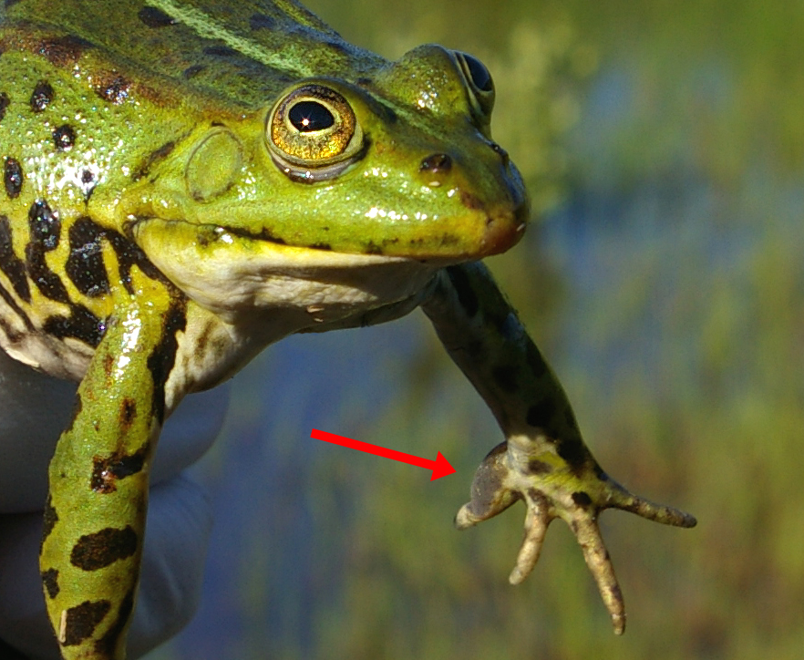 A male Edible Frog (Pelophylax esculentus), caught in the breeding season. The red arrow points to the nuptial pad at the inner finger.